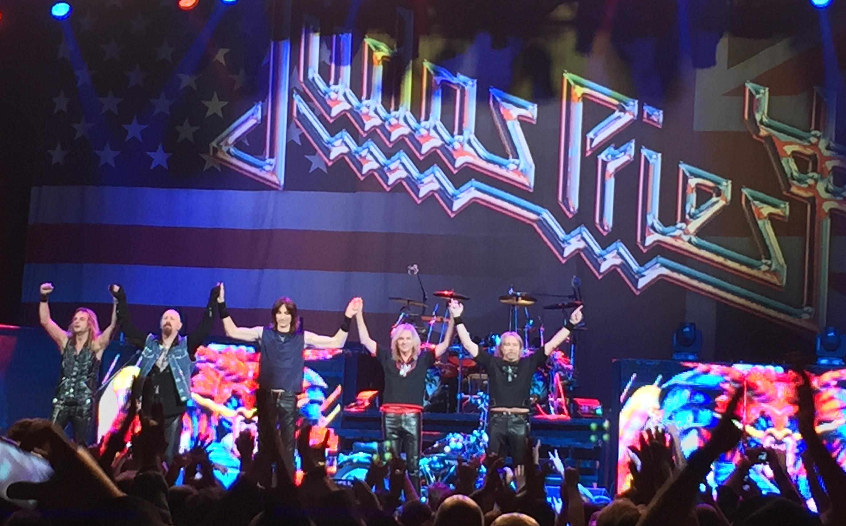 Judas Priest in Redeemer of Souls concert on 9th Oct 2014 at Barclay Center, Brooklyn , New York